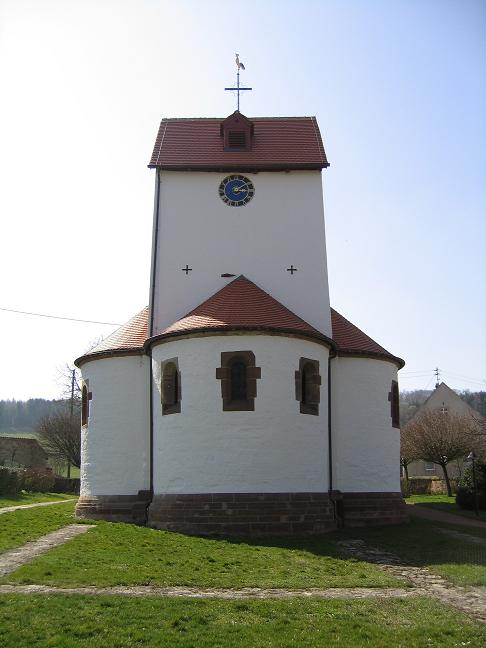 Apsides of the romanesque Church of Böckweiler